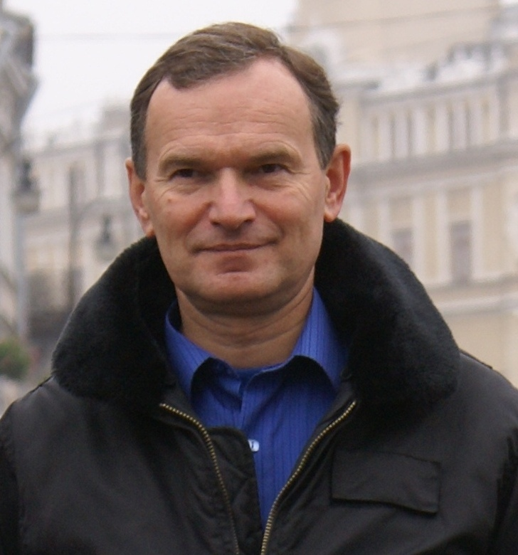 Photograph of Taras Voznyak — Ukrainian culture expert, political scientist, editor-in-chief and founder of Independent Cultural Journal "Ї"